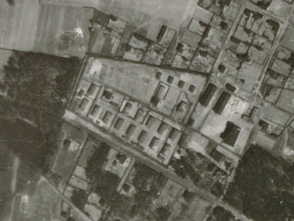 Aerial photo of Stalag Luft II in Łódź